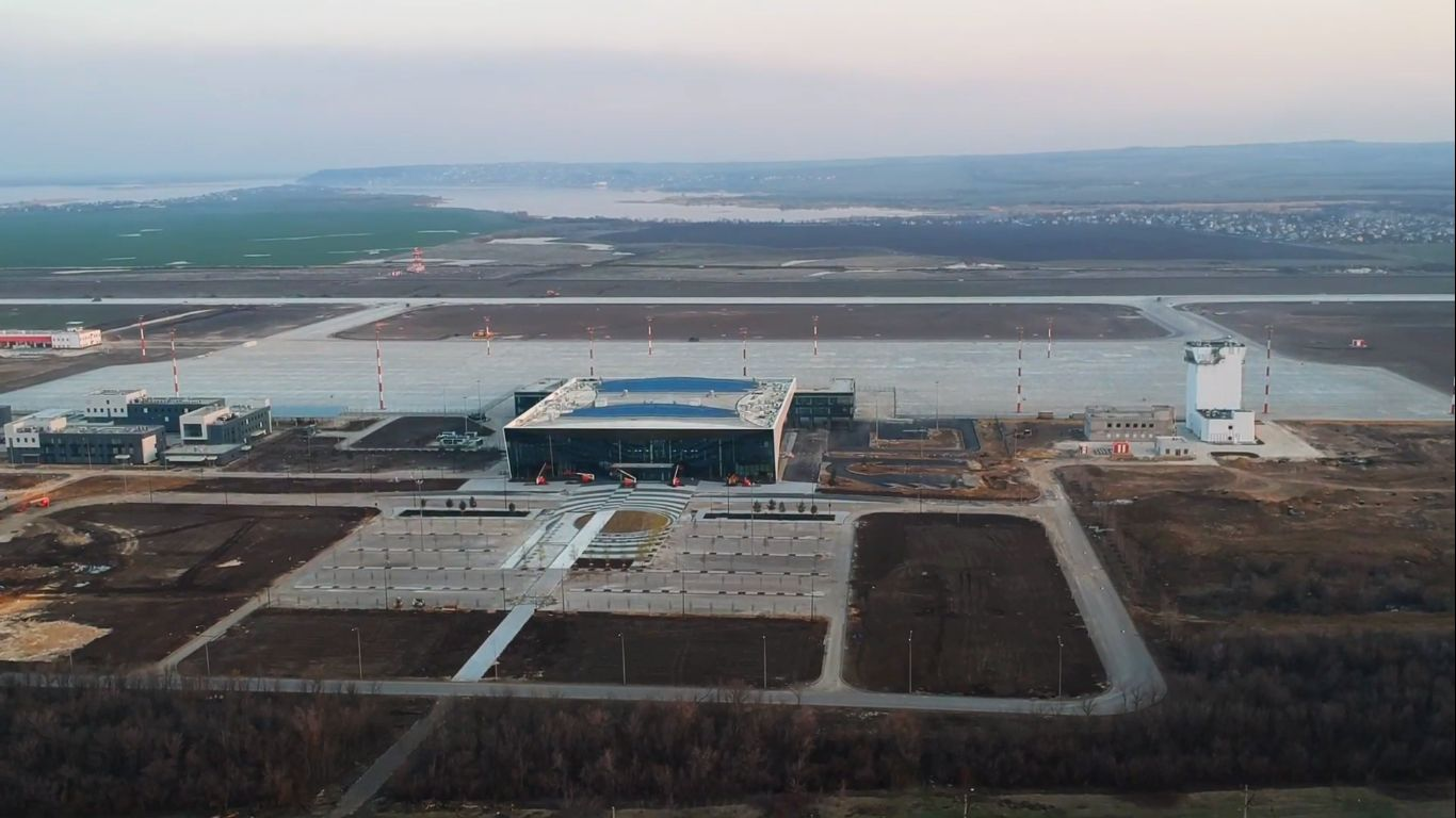 Saratov Gagarin airport under construction